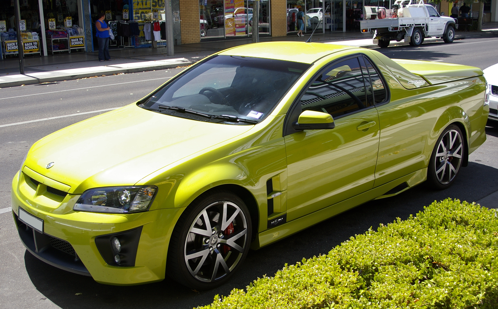 2007 HSV Maloo (E Series MY08.5) R8 utility